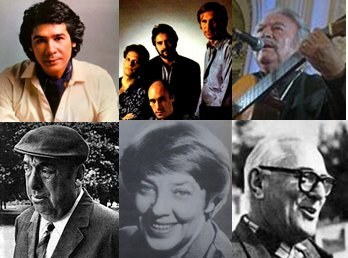 From left to right. Up: Victor Heredia, Cuarteto Zupay, Cesar Isella; Down: Pablo Neruda, María Elena Walsh, José Pedroni.